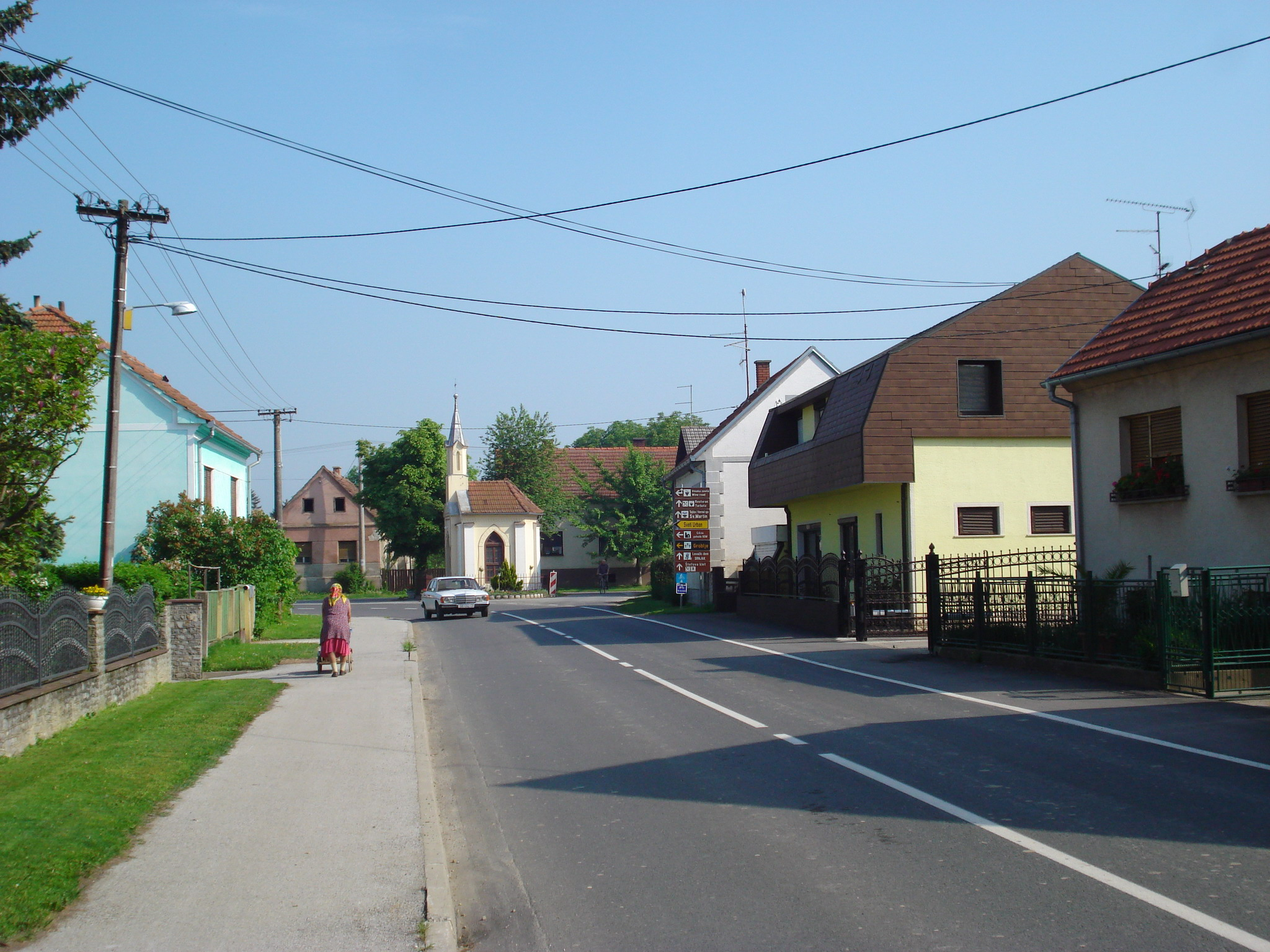 Macinec, Medjimurje County, Croatia - centre of the village